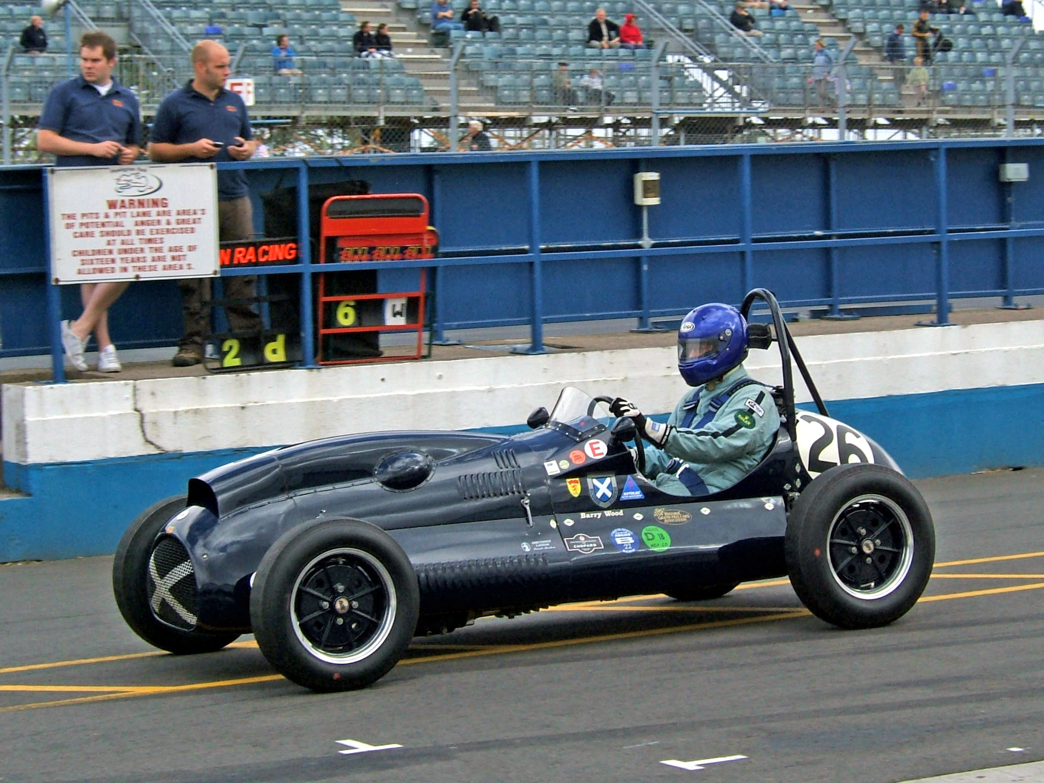 An ex-Ecurie Ecosse Cooper Bristol burbles down the pit lane during the VSCC SeeRed race meeting, Donington Park, September 2007.